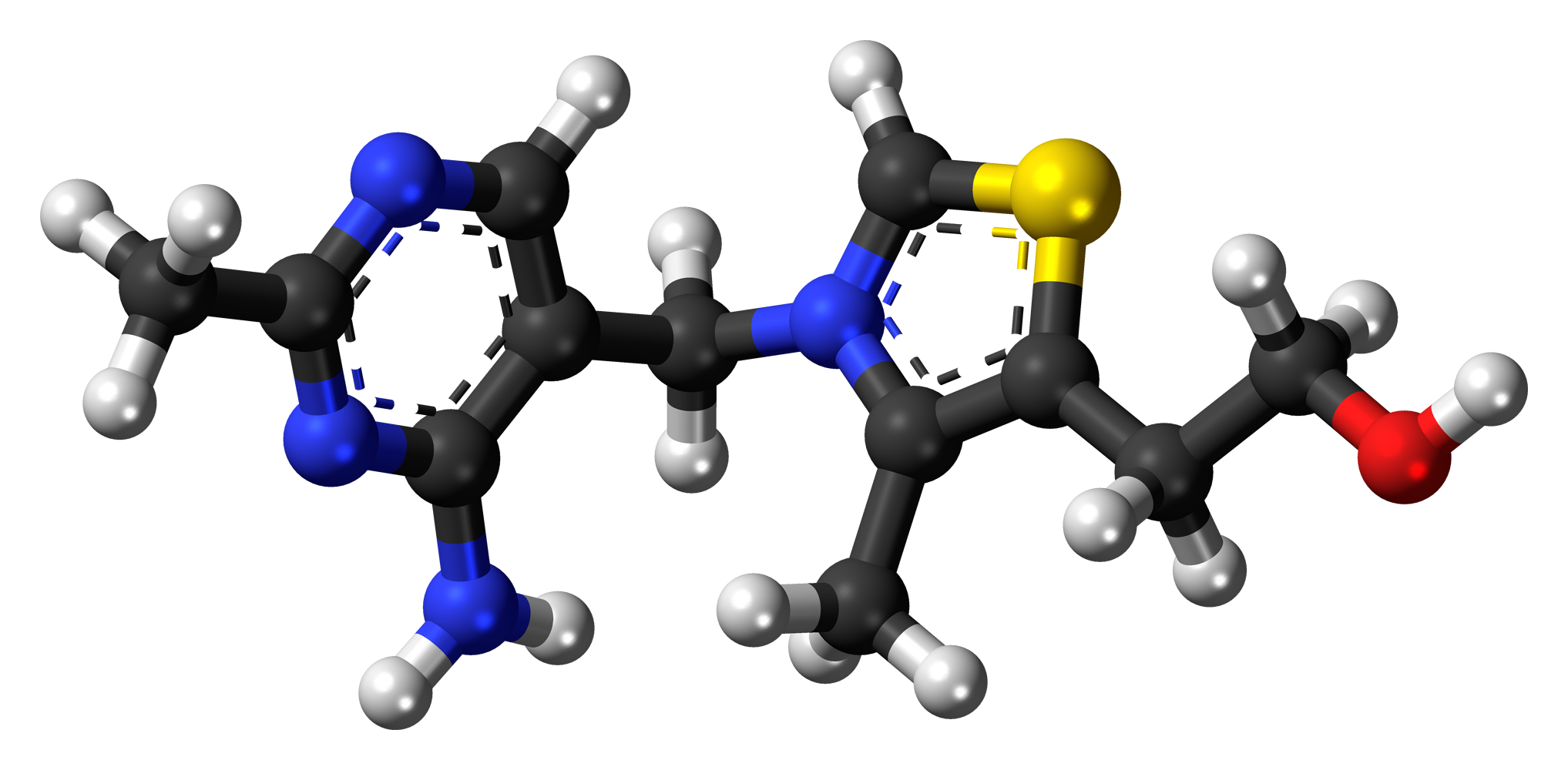 Ball-and-stick model of the thiamine molecule, also known as vitamin B1, an essential nutrient. This image shows the cation (positive charge). Colour code: Carbon, C: black Hydrogen, H: white Oxygen, O: red Nitrogen, N: blue Sulfur, S: yellow